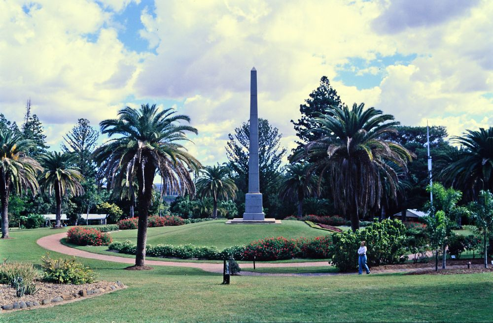 Rockhampton War Memorial (1997)